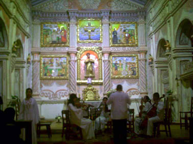 Church in San Javier, Ñuflo de Chávez, Santa Cruz, Bolivia. Part of the Jesuit Missions of the Chiquitos World Heritage Site.